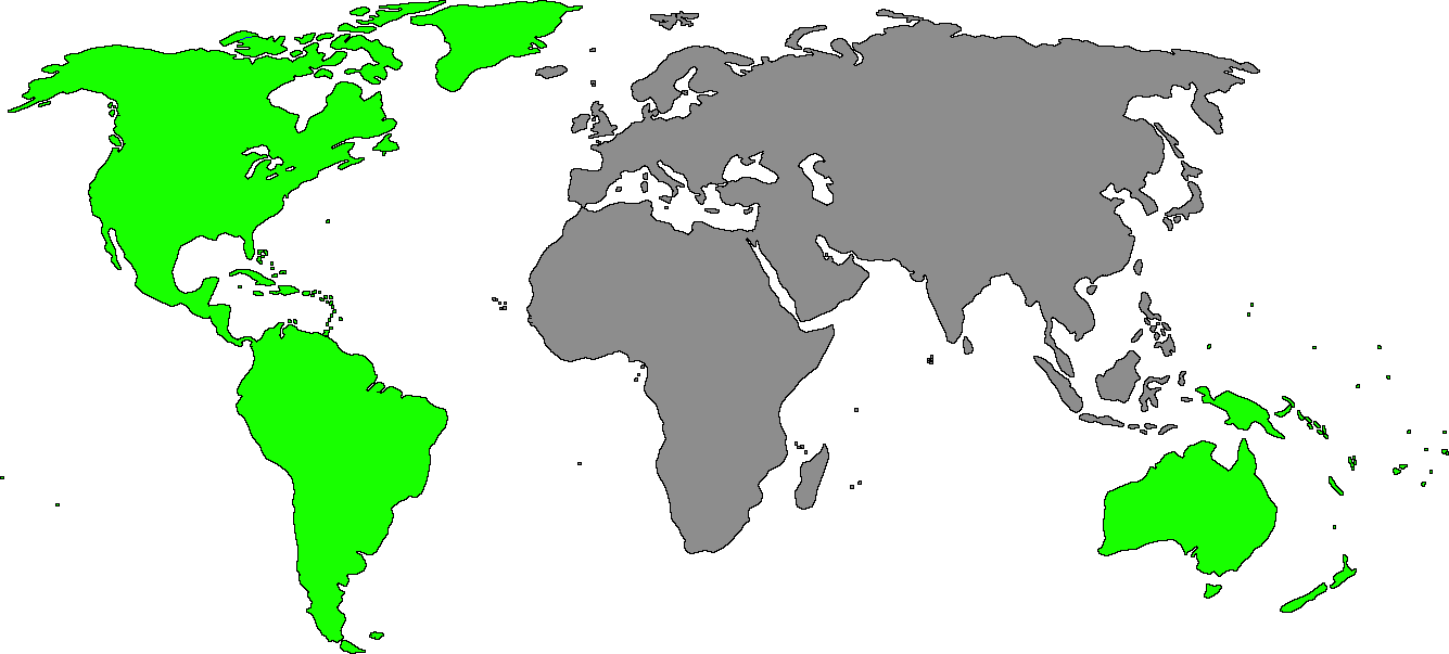 A map showing the Old World (Eurasia and Africa) and New World (Oceania and the Americas).